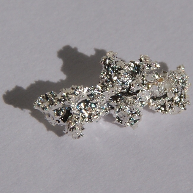 Natural silver nugget, 1 cm long.